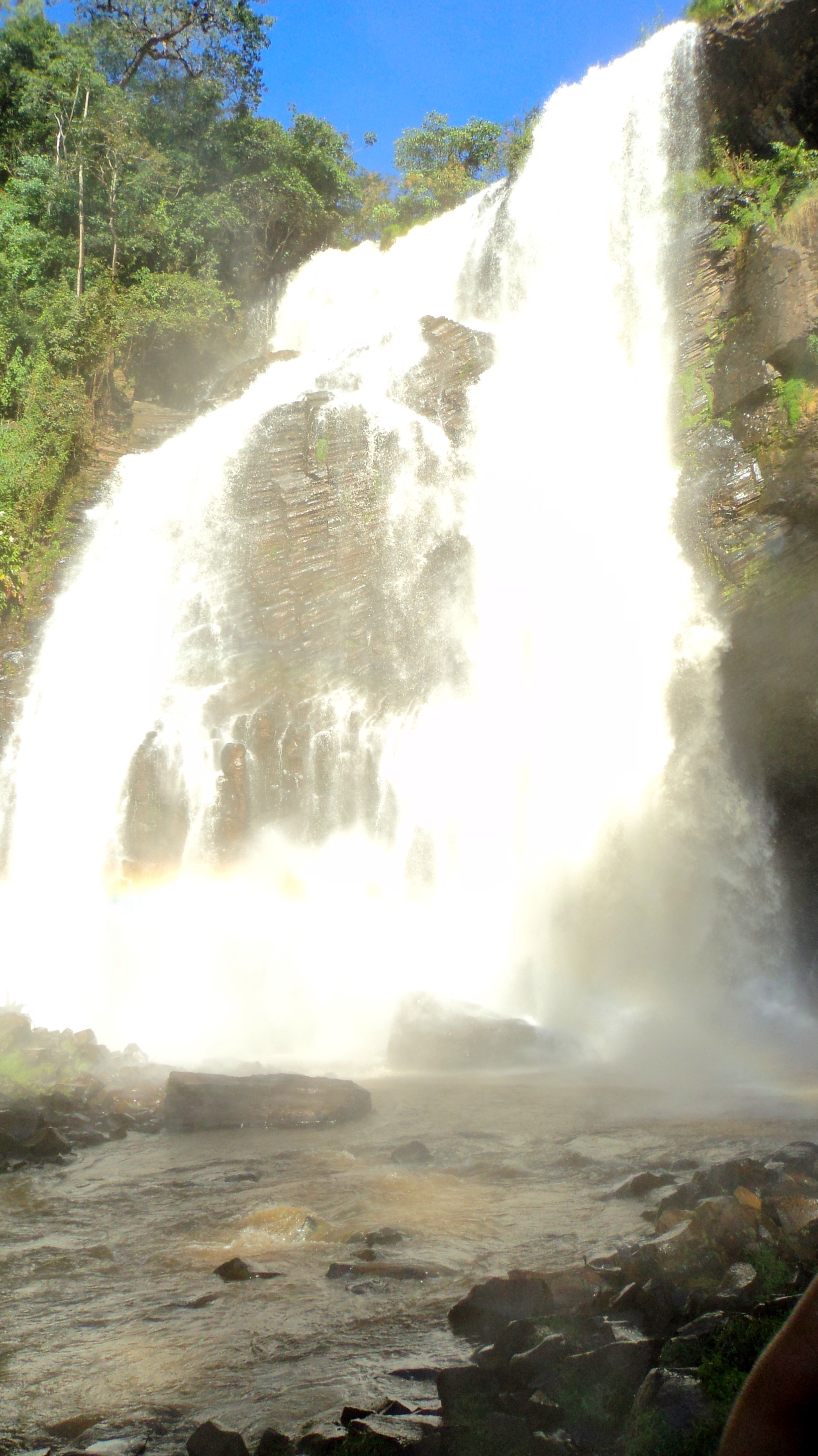 Pantano Waterwall